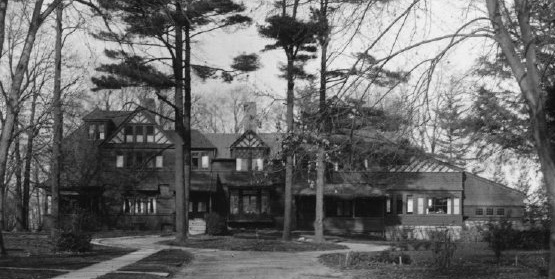 The "Pines" at 7 Evelyn Place, Princeton, New Jersey, during its time as home to the Evelyn College of Women (1887-1897). The home is now two private residences